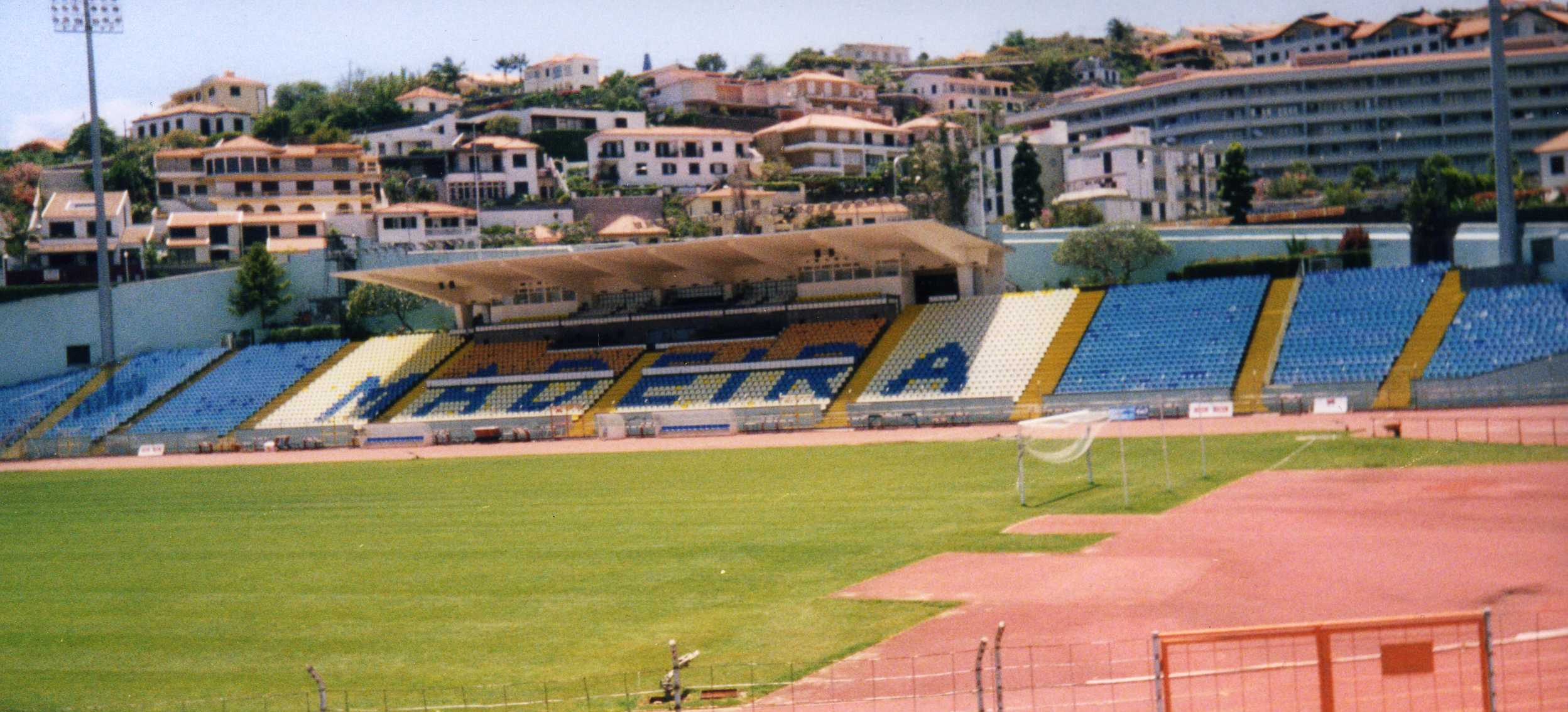 Estádio dos Barreiros.